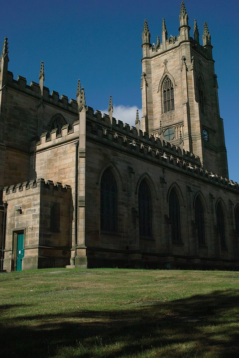 SheffieldStGeorgeChurch